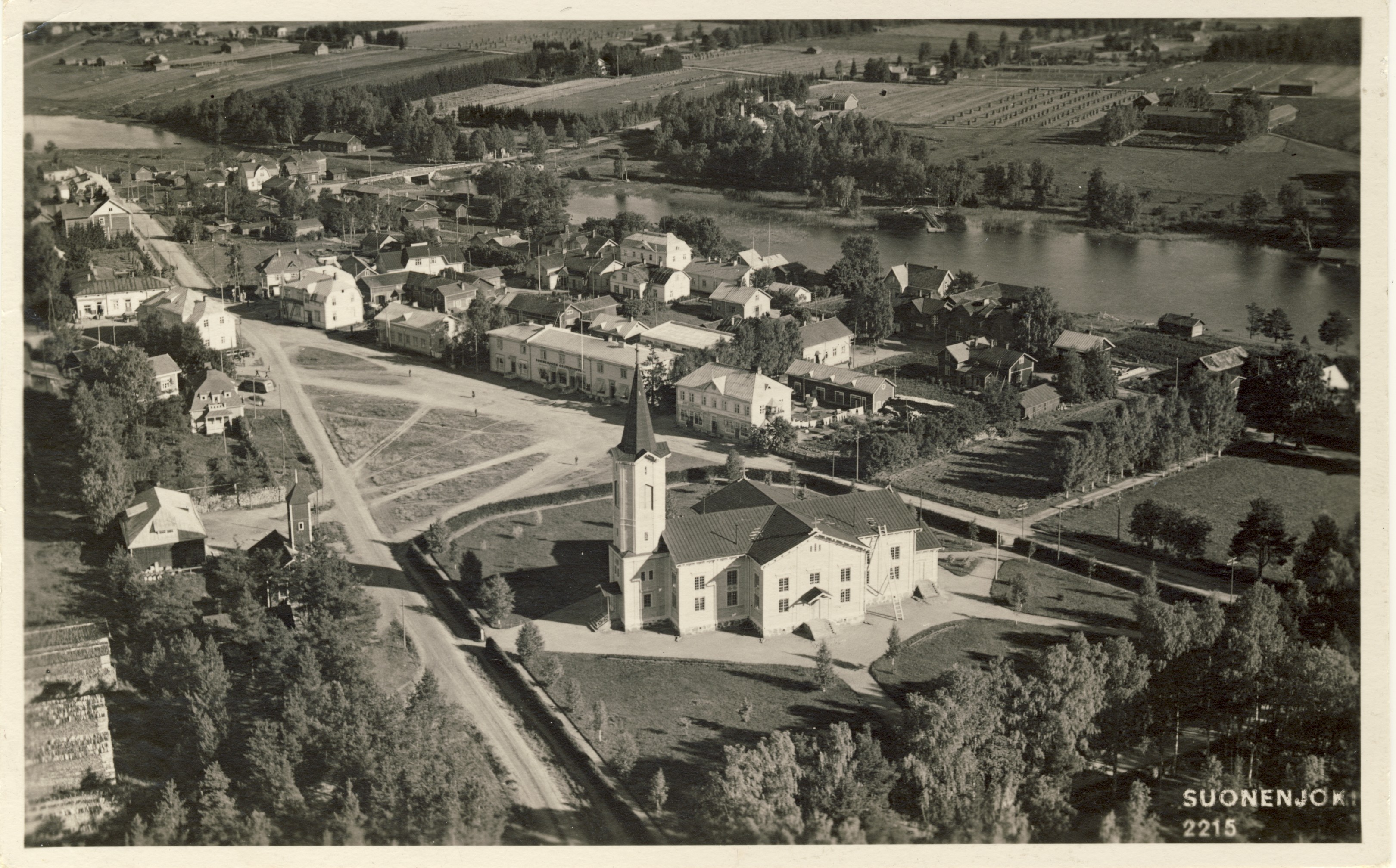 Suonenjoki Church, Finland from air